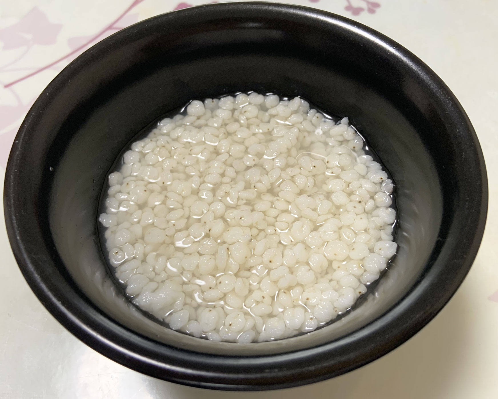 A bowl of boiled sorghum grains from China.